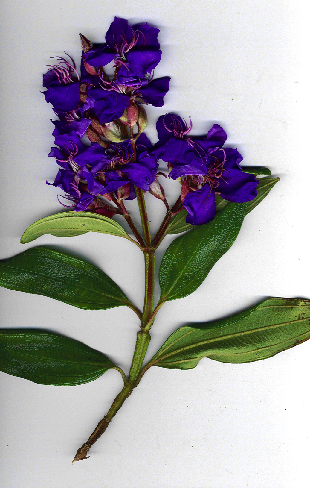 Tibouchina granulosa (branch). Location: Maui, Kula Ag Station